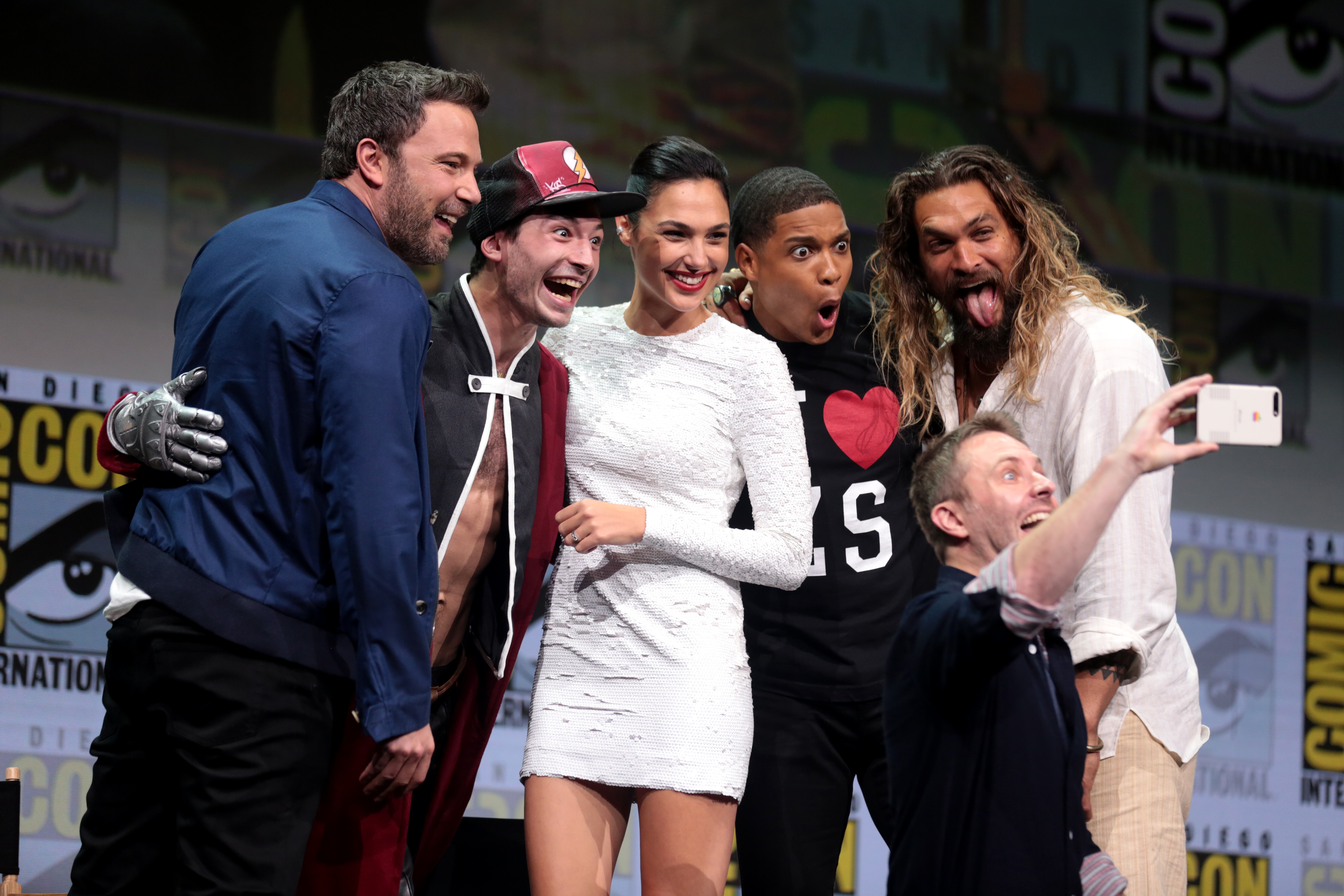 Ben Affleck, Ezra Miller, Gal Gadot, Ray Fisher, Jason Momoa and Chris Hardwick speaking at the 2017 San Diego Comic Con International, for "Justice League", at the San Diego Convention Center in San Diego, California.